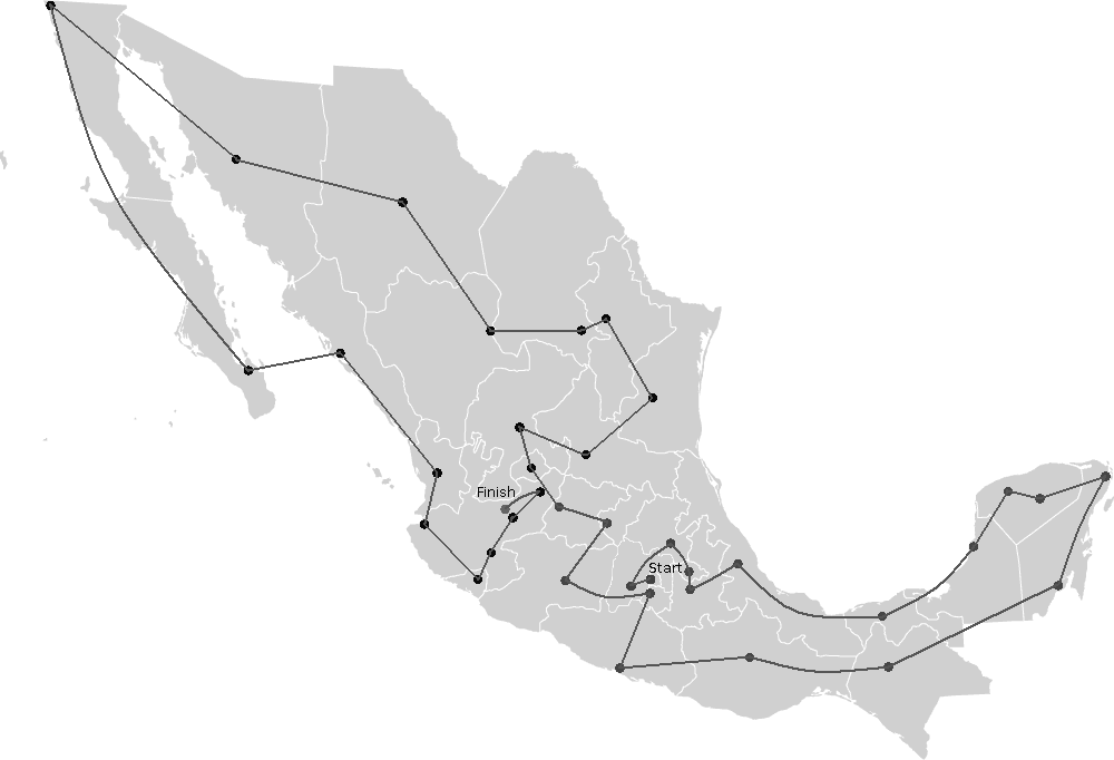 Relay route for the 2011 Pan American Games, based on